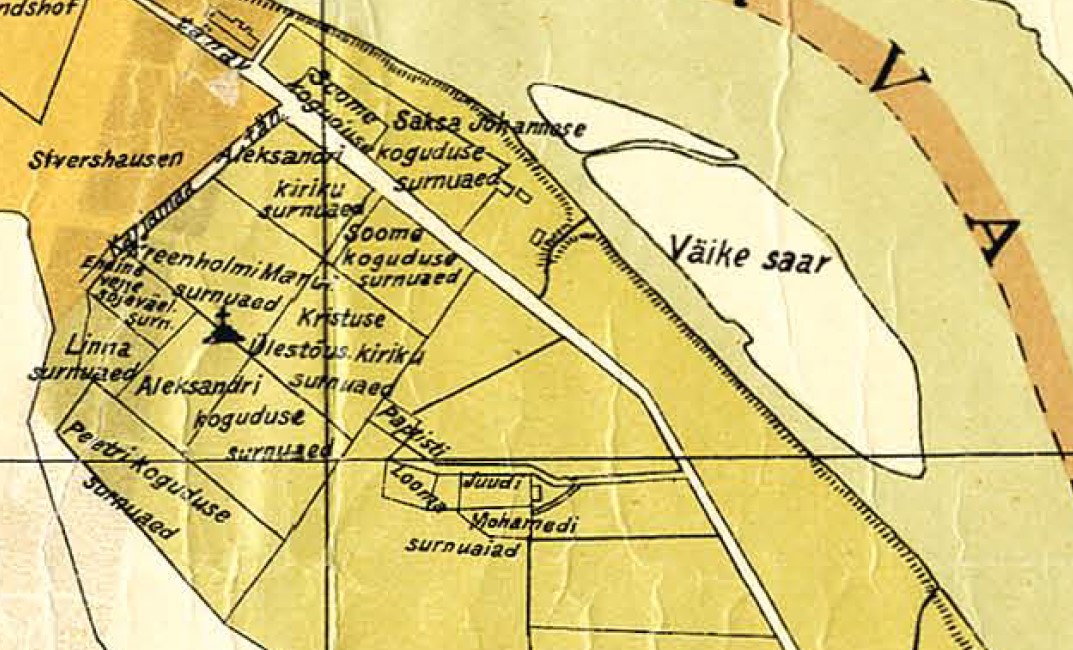 Väike island in Narva river at map in 1929